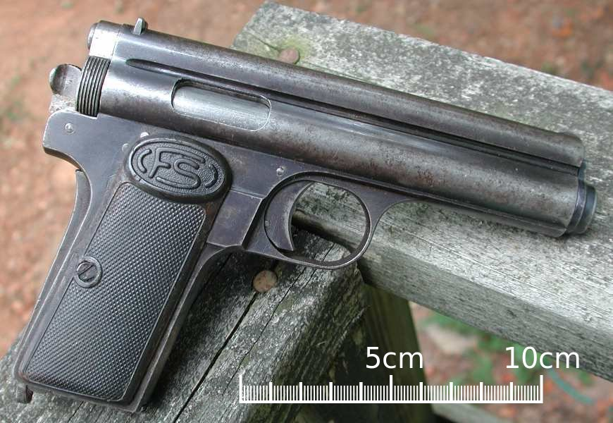 Image created by Tam of Books Bikes Boomsticks and explicitly gives permission for its use on Wikipedia (